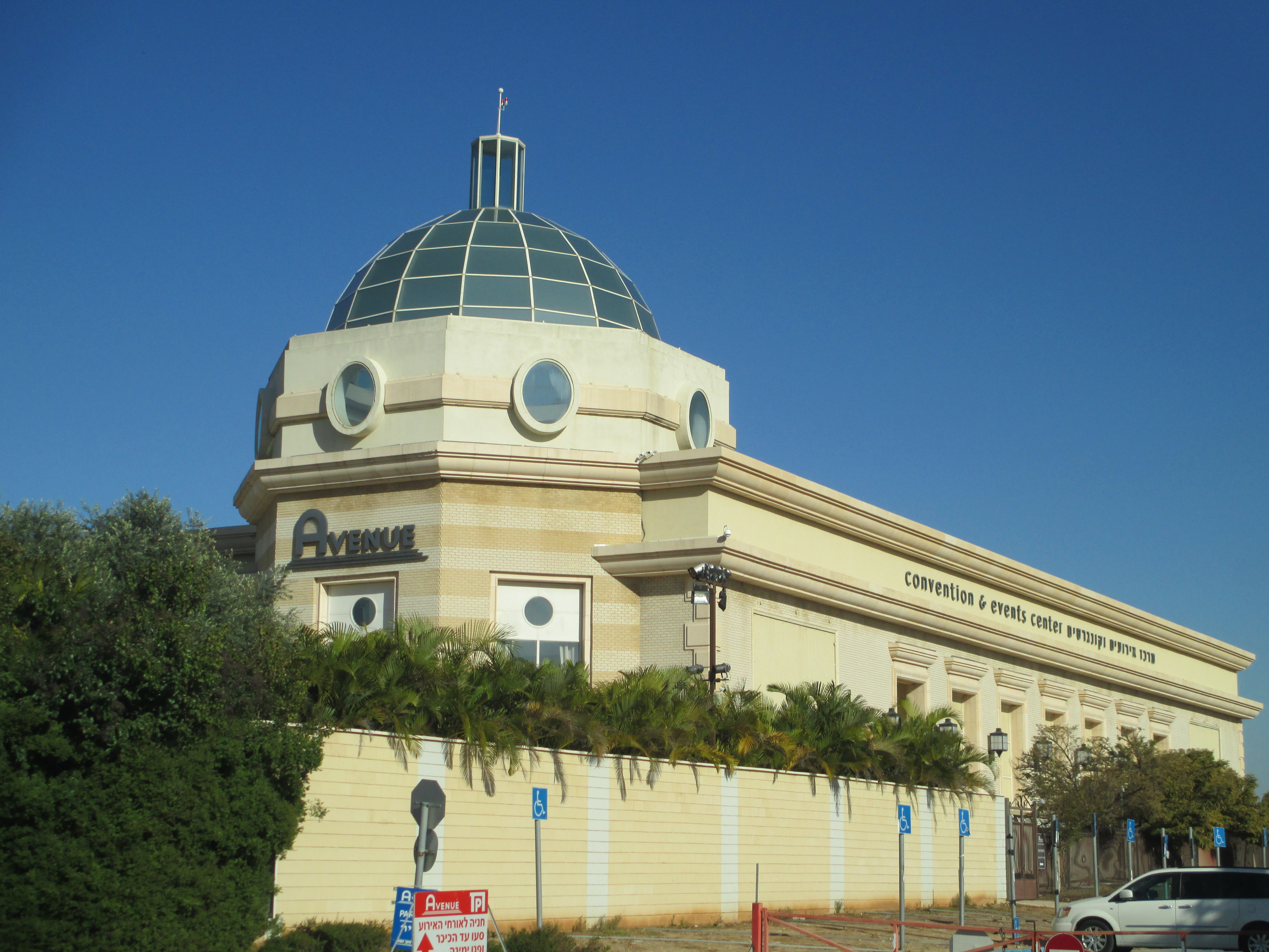 Airport City, Israel